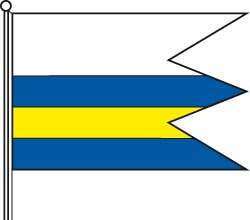 Header for the Volkovce village website